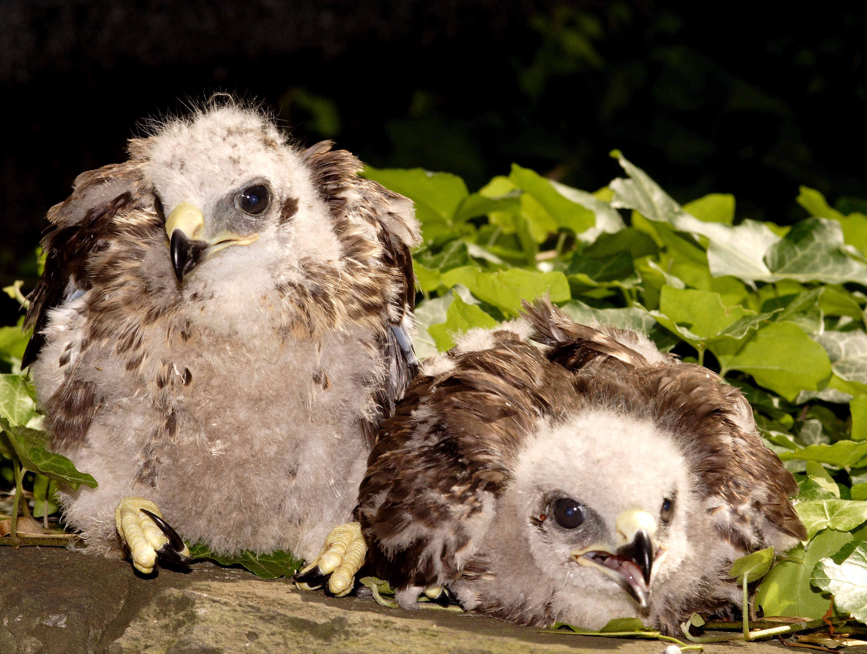 young Common Buzzards, Berlin